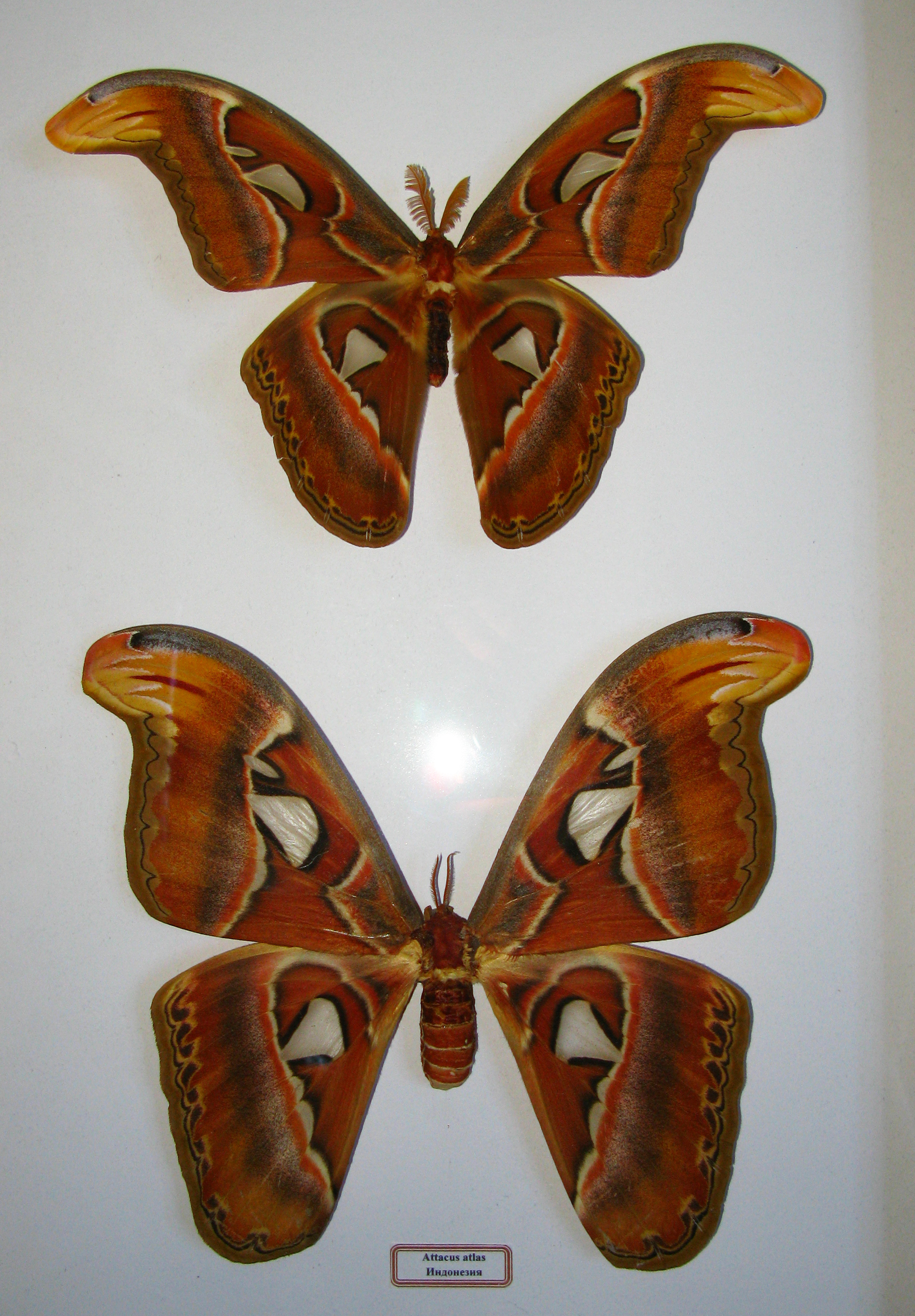 Attacus atlas